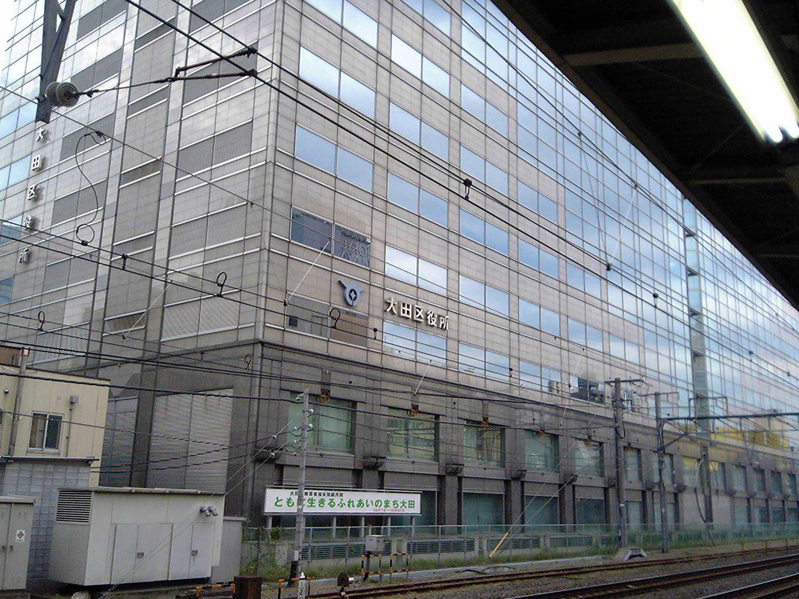 Ota City Hall in Tokyo, Japan